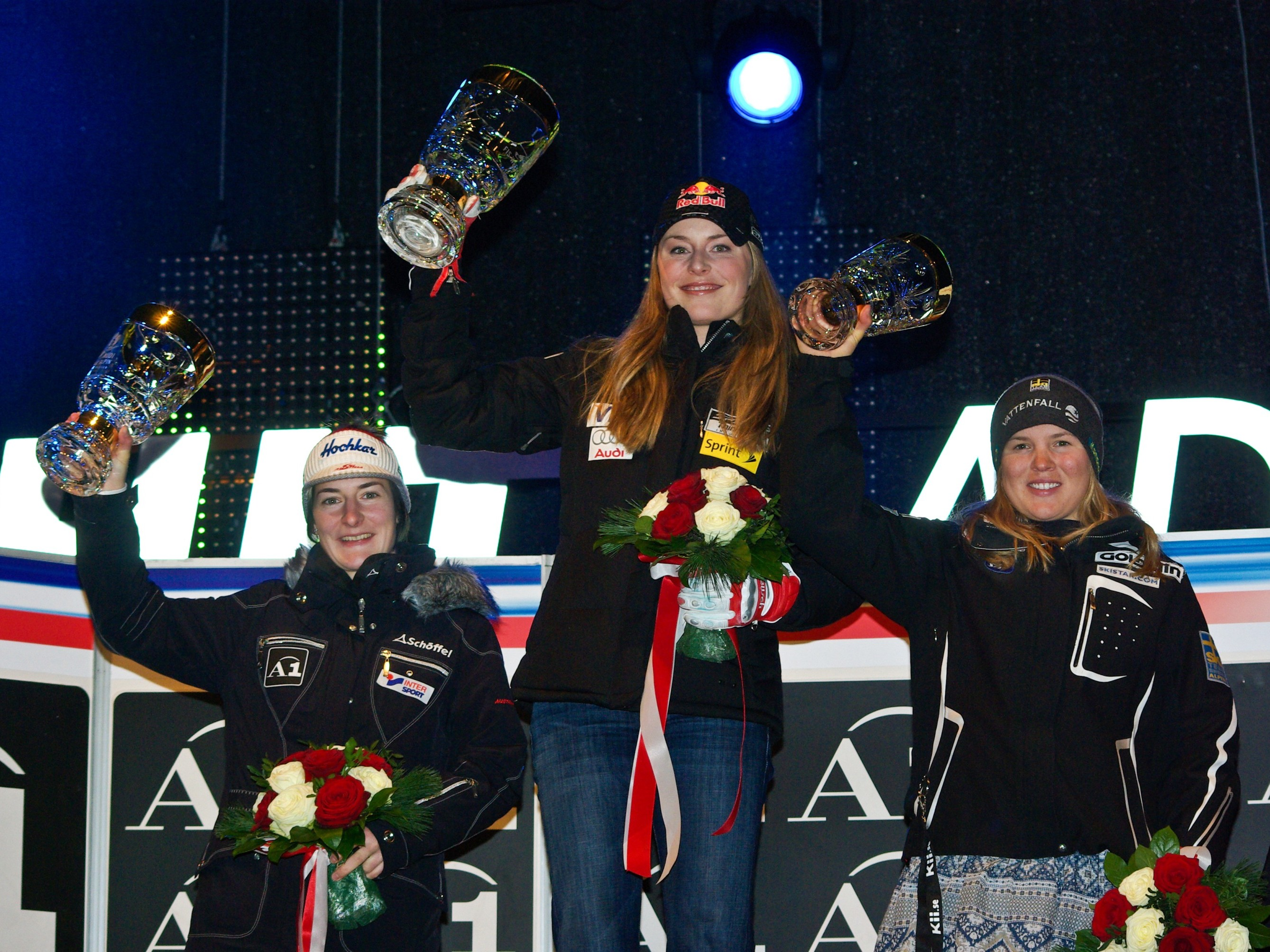 2009 Alpine Skiing World Cup Ladies: The winners of the super combined in Altenmarkt-Zauchensee on 17 January 2009: 1st place: Lindsey Vonn (middle), 2nd place: Kathrin Zettel (left), 3rd place: Anja Pärson (right)